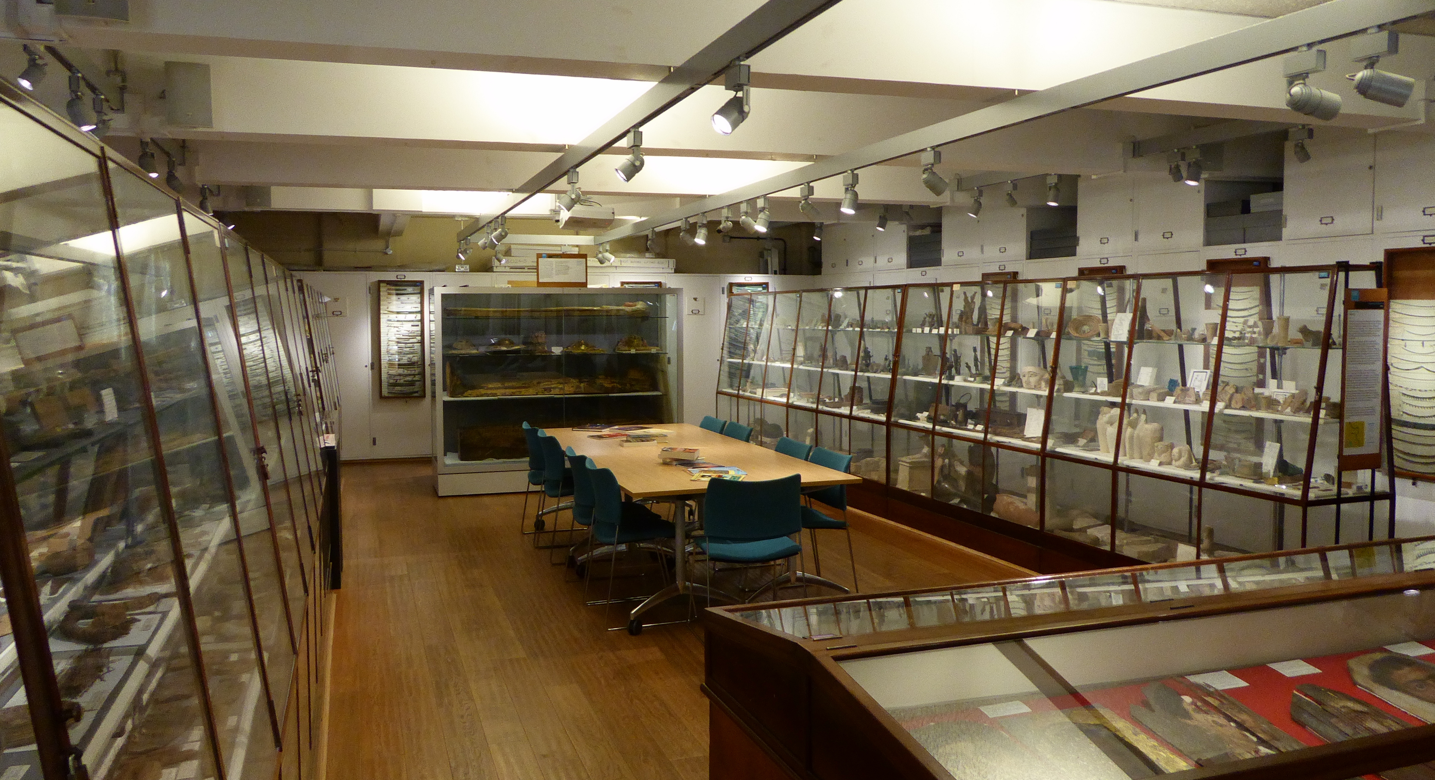 The interior of the Petrie Museum, part of University College London in the London Borough of Camden.